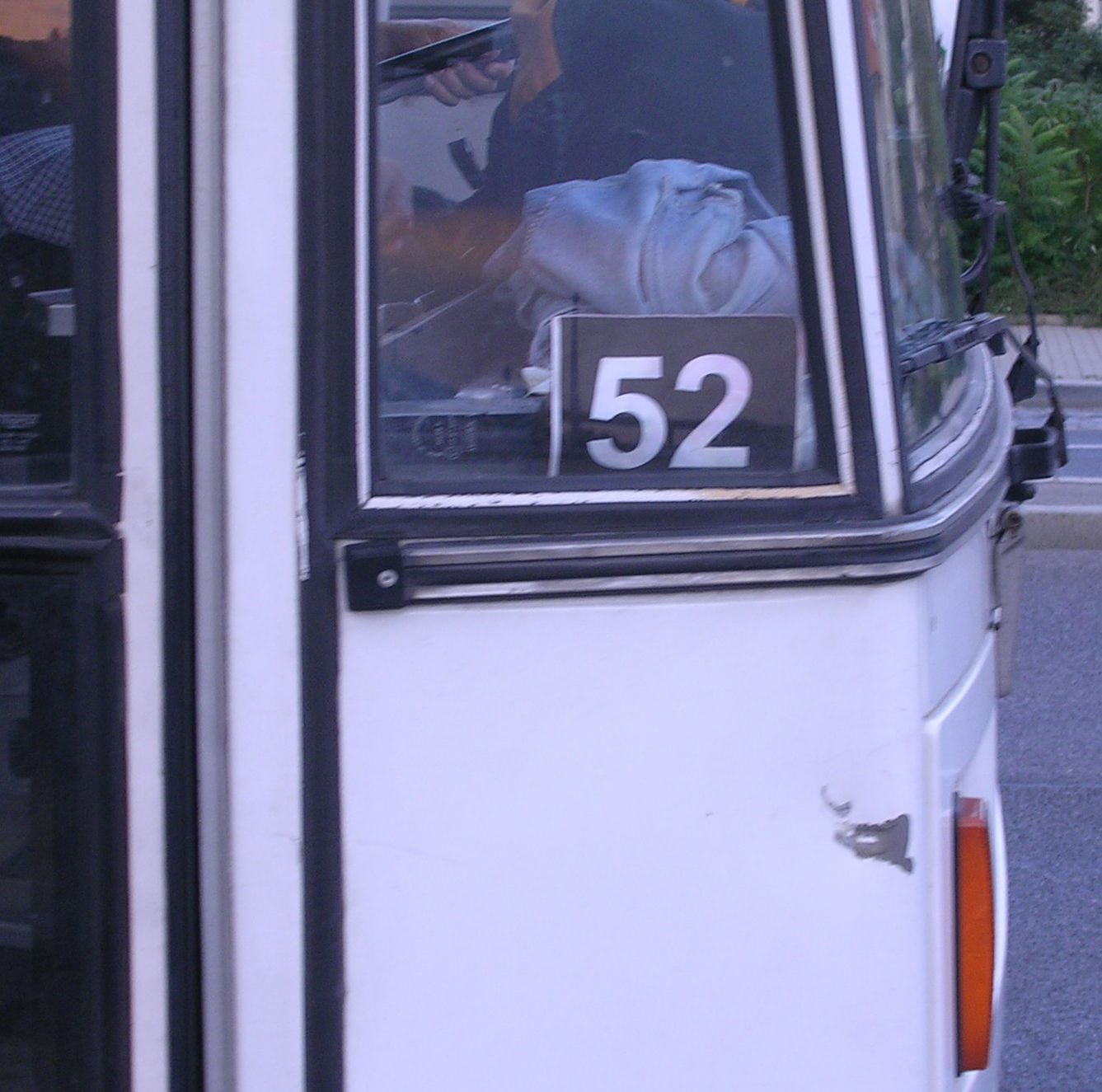 Modřany, Prague, the Czech Republic. A bus.